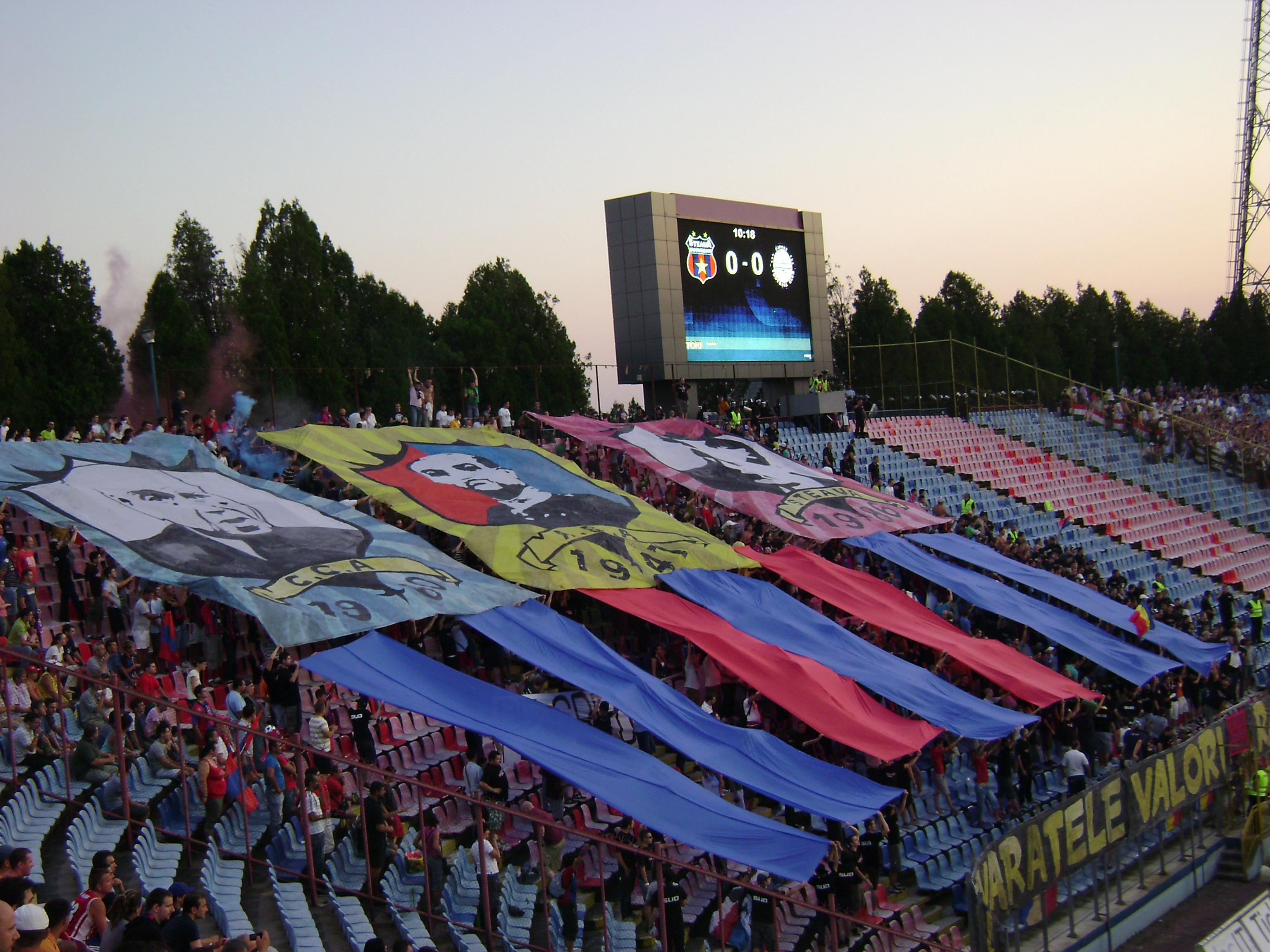 Steaua choreography '47, '60, '86